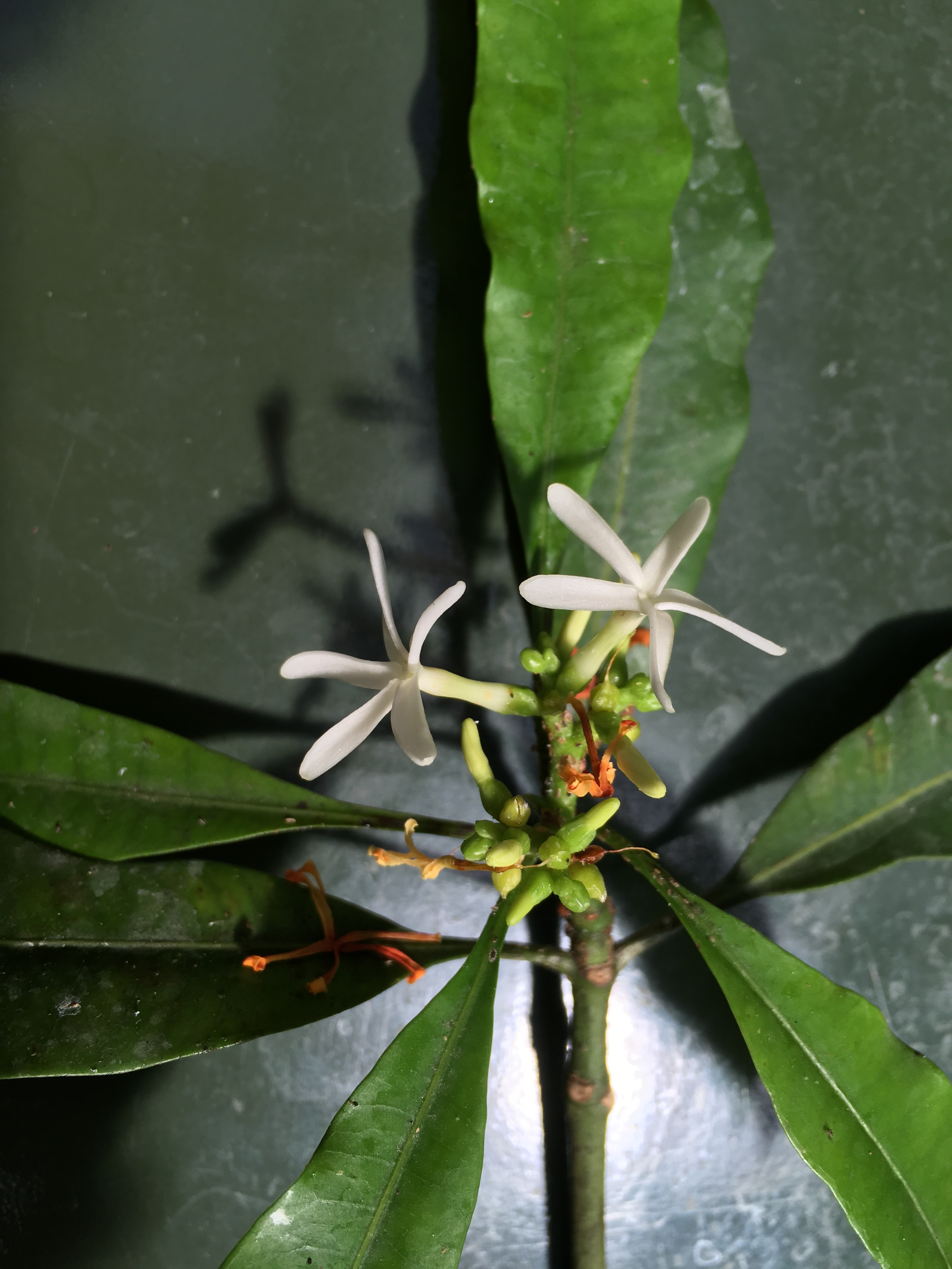 Ochrosia inventorum L. Allorge in the greenhouses of the Jardin des Plantes in Paris, France. Object location48° 50′ 35.59″ N, 2° 21′ 27.83″ E